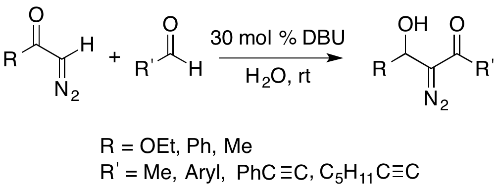 Example of a Büchner reaction forming a product that incorporates the diazo group.